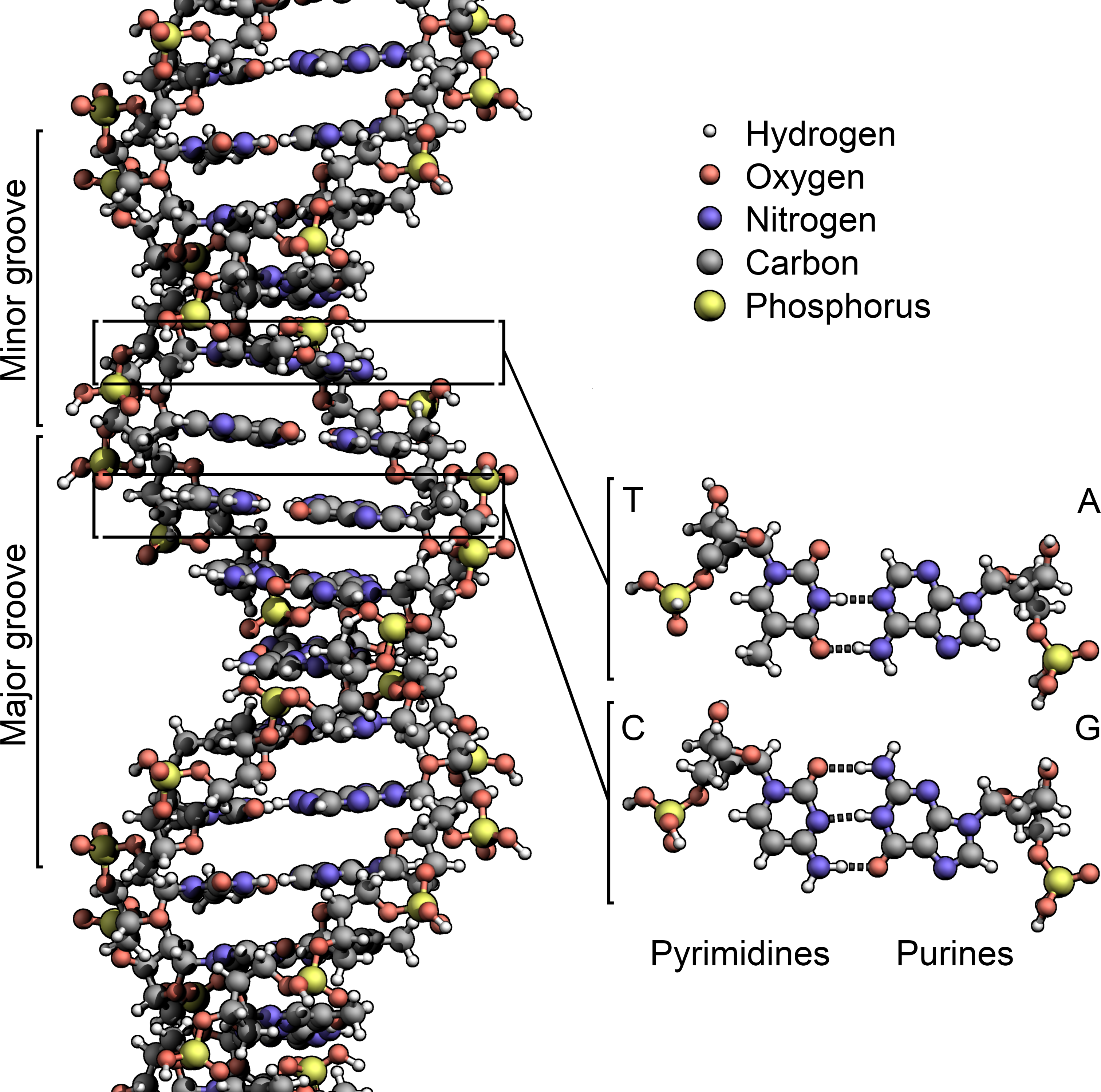 The structure of DNA showing with detail the structure of the four bases, adenine, cytosine, guanine and thymine, and the location of the major and minor groove.